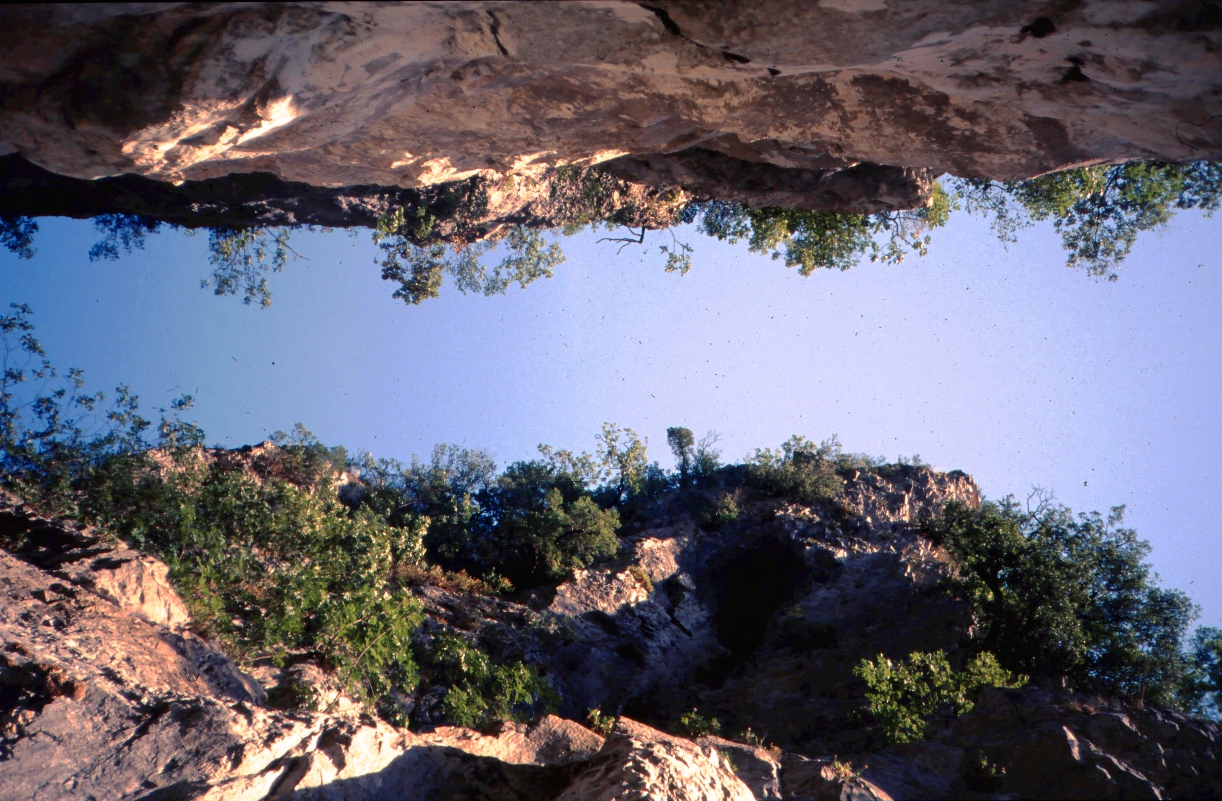 Acheron river canyon from above